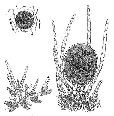 bottom left: antheridia and hairs from conceptacle top left: ovules and spermatozoids right: oogonium from conceptacle